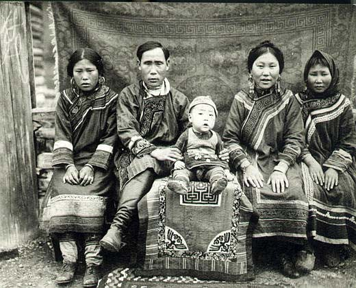 Hezhe (Nanai) family in traditional costumes - Amur basin (Russia).